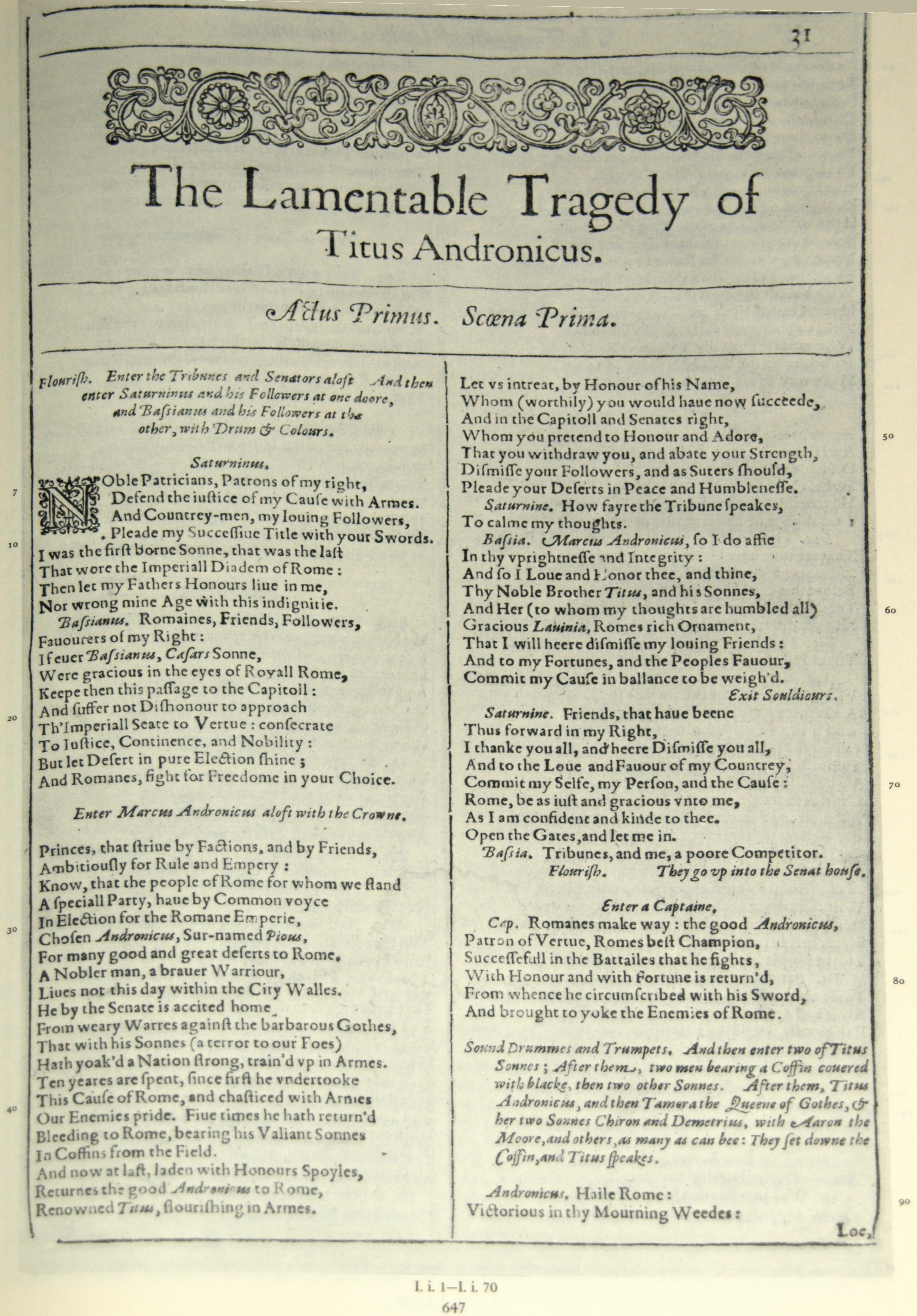 Photo of the first page of Titus Andronicus from a facsimile edition of the First Folio of Shakespeare's plays, published in 1623